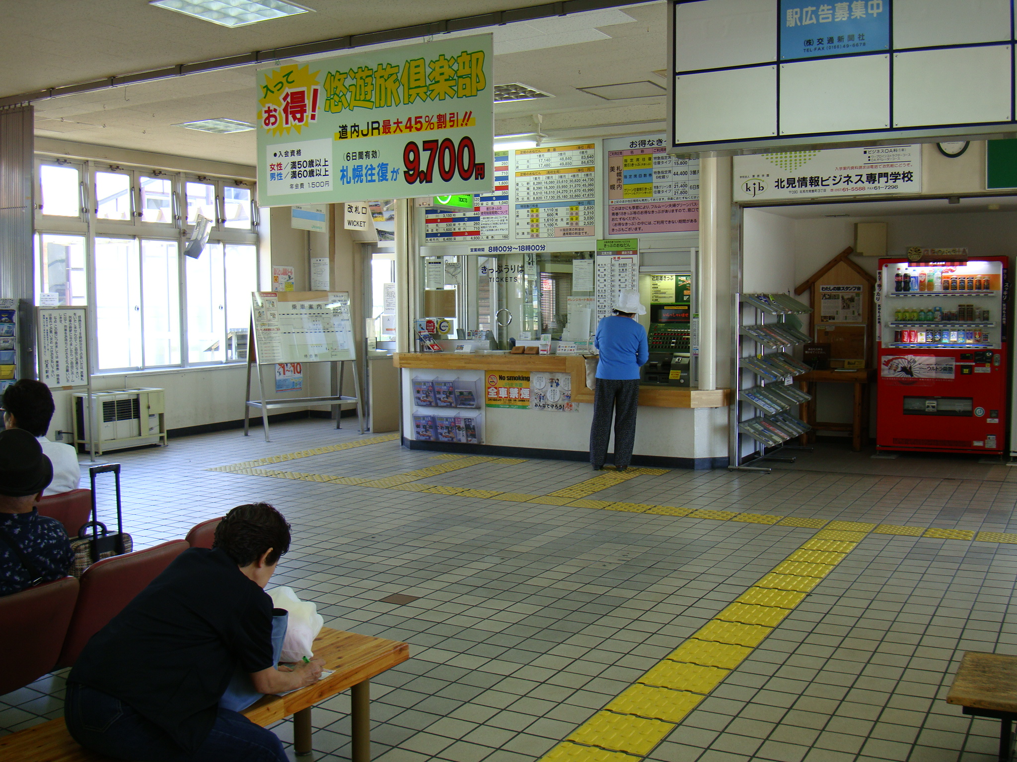 Bihoro Station